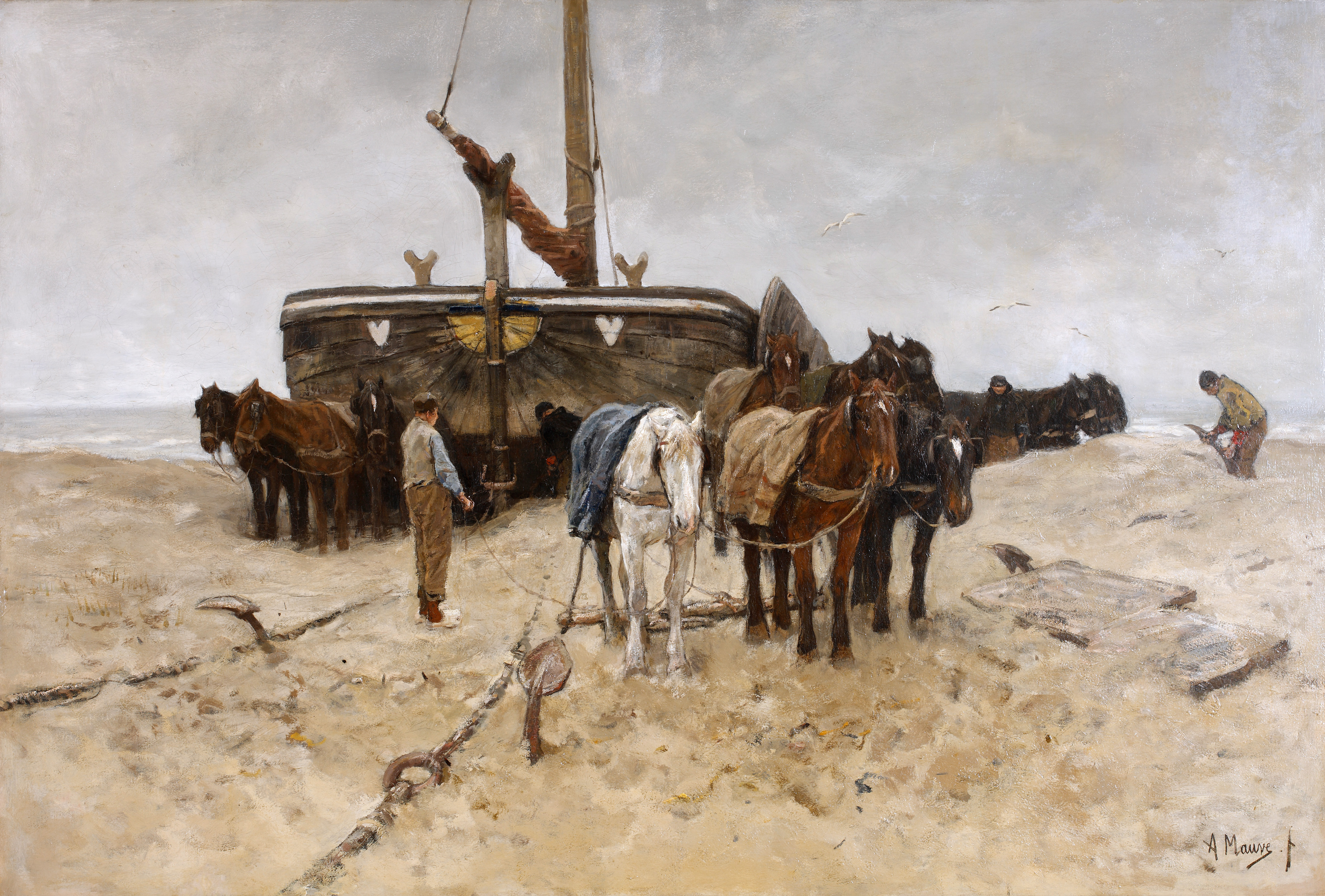 Fishing boat on the beach oil on canvas, 115 cm x 172 cm Gemeentemuseum Den Haag